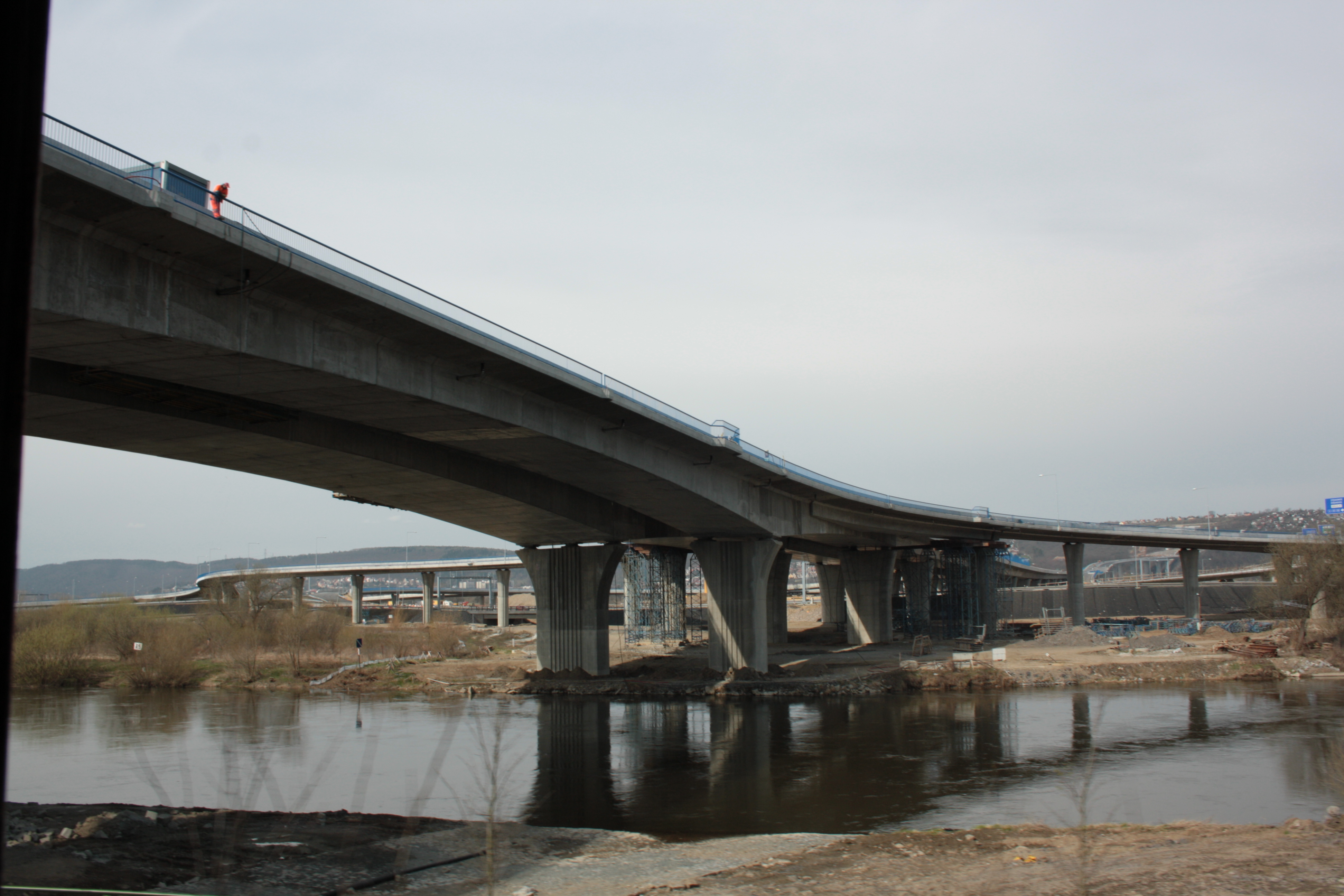 City Ring bridge under construction near Zbraslav in Prague, CZ